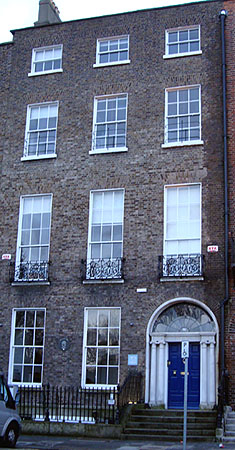 The house on Merrion Square, Dublin, Ireland, where Sheridan Le Fanu lived.